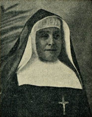 Beata Rita Dolores